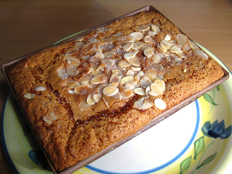 Coca de llanda de carabassa, de València. Coca de llanda (a kind of cake baked in an oven), pumpkin flavour, from Valencia, Spain.